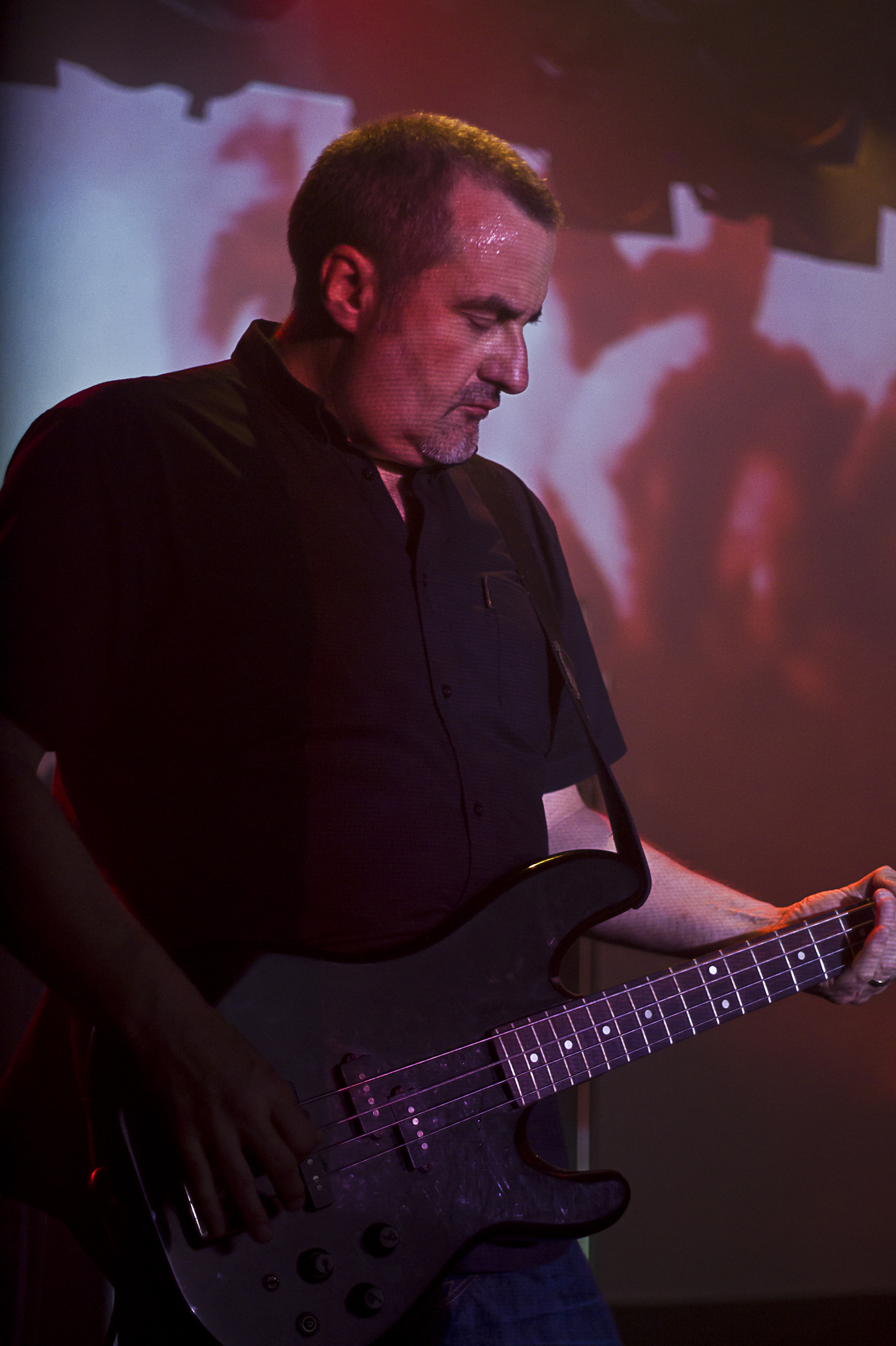 G. C. Green performing with Godflesh at Le Club, Strasbourg in May 2013